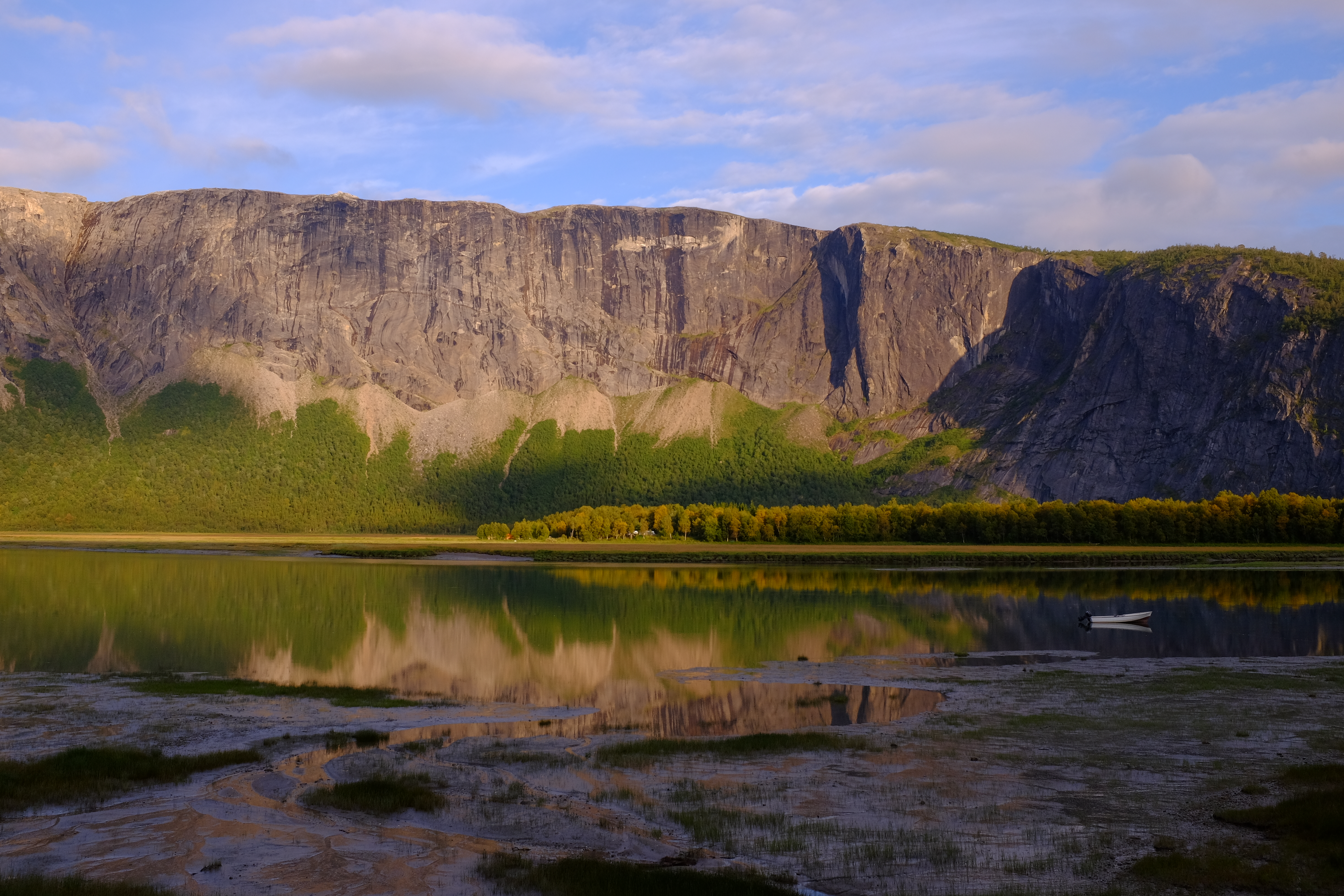 Seglfjellet with Leirvika nature reserve in Beiarn, Nordland, Norway